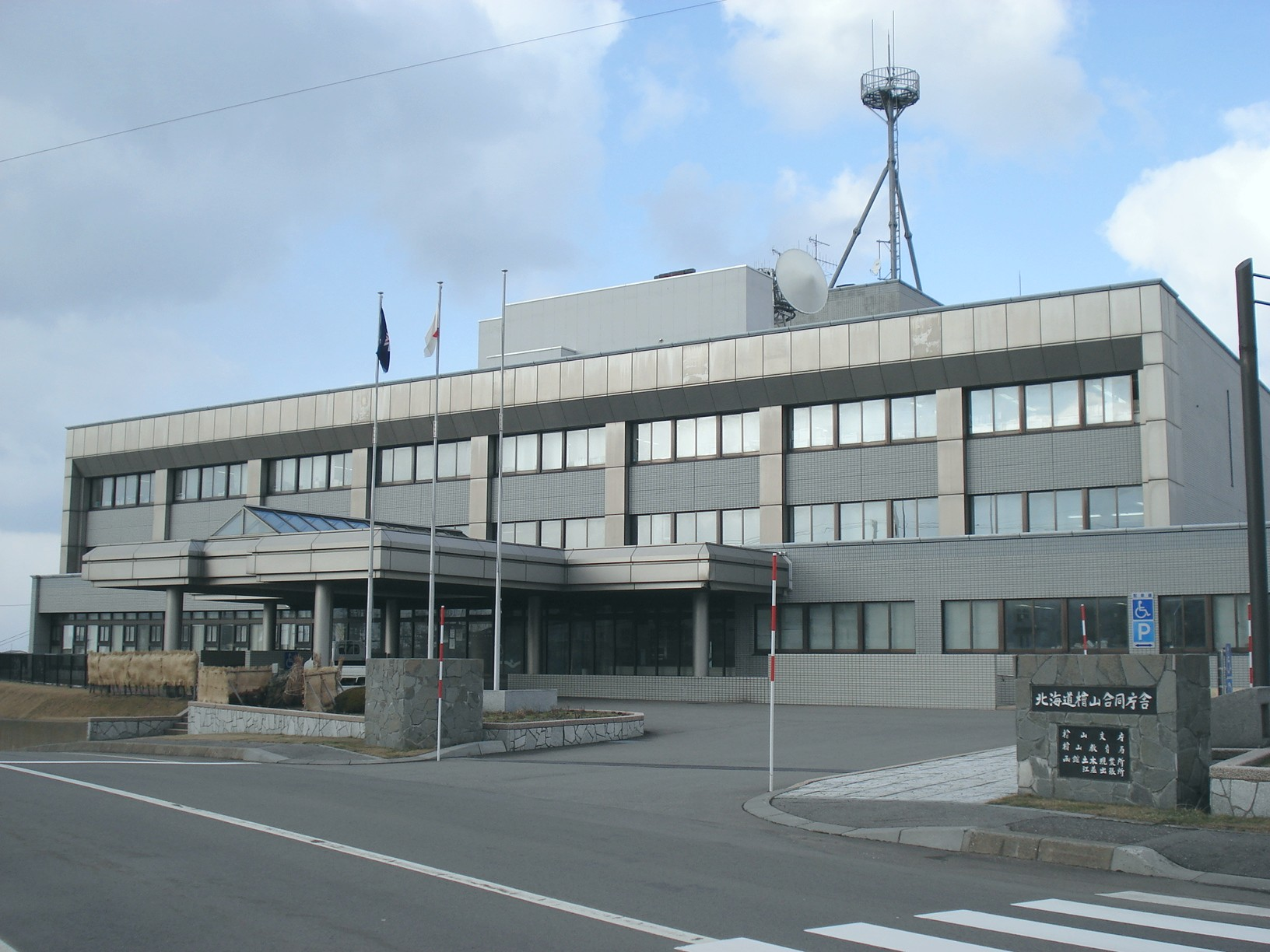 Hiyama Subprefecture, in Esashi town, Hokkaido, Japan